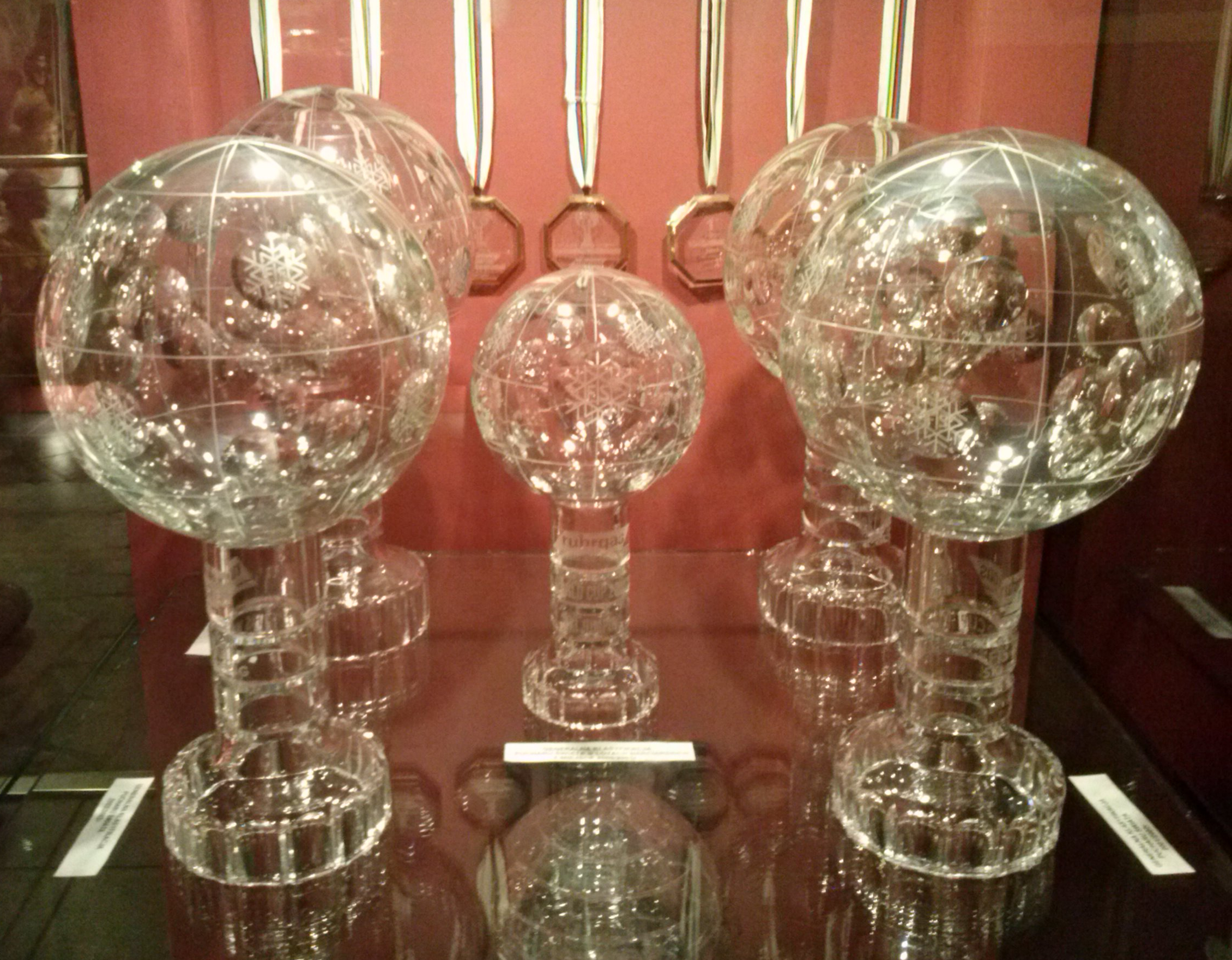 Crystal Globe - main trophy in FIS skiing World Cups. Photo from Adam Małysz's gallery in Wisła, Poland.